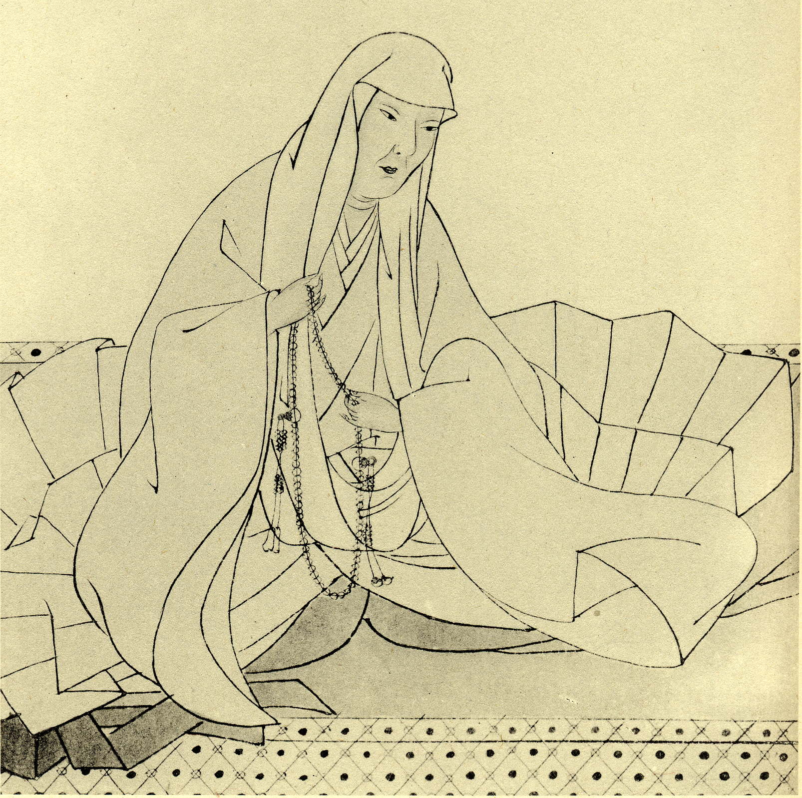 Abutsu-ni(阿仏尼，1222？-1283) was a Japanese woman, poet and Buddist monk.